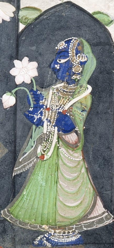 Revati